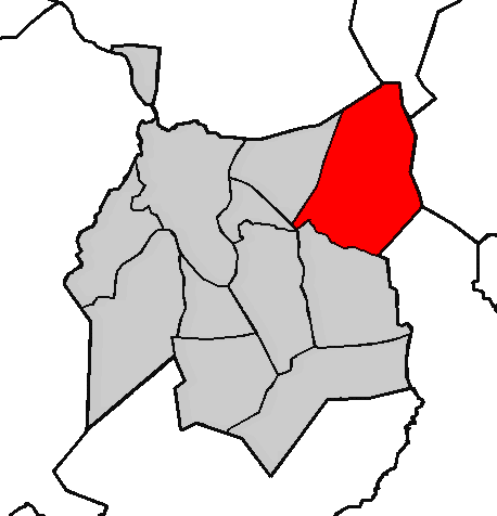 Location of the parish of Cecebre in the municipality of Cambre (Galicia, Spain)